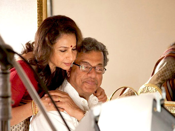 Actress Sharmila Tagore with actor Girish Karnad on the sets of the film Life Goes On.